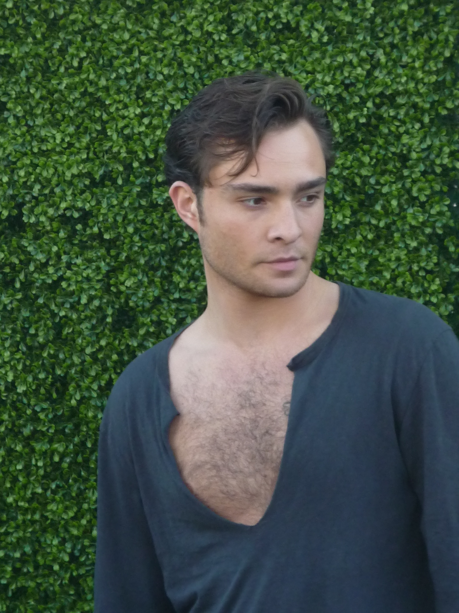 Actor Ed Westwick at 2010 CBS Summer Press Tour Party.